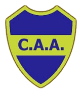 Argentine football club Arsenal de Llavallol badge. This was established after the club became a reseve team of Boca Juniors, changing their jersey and badge.